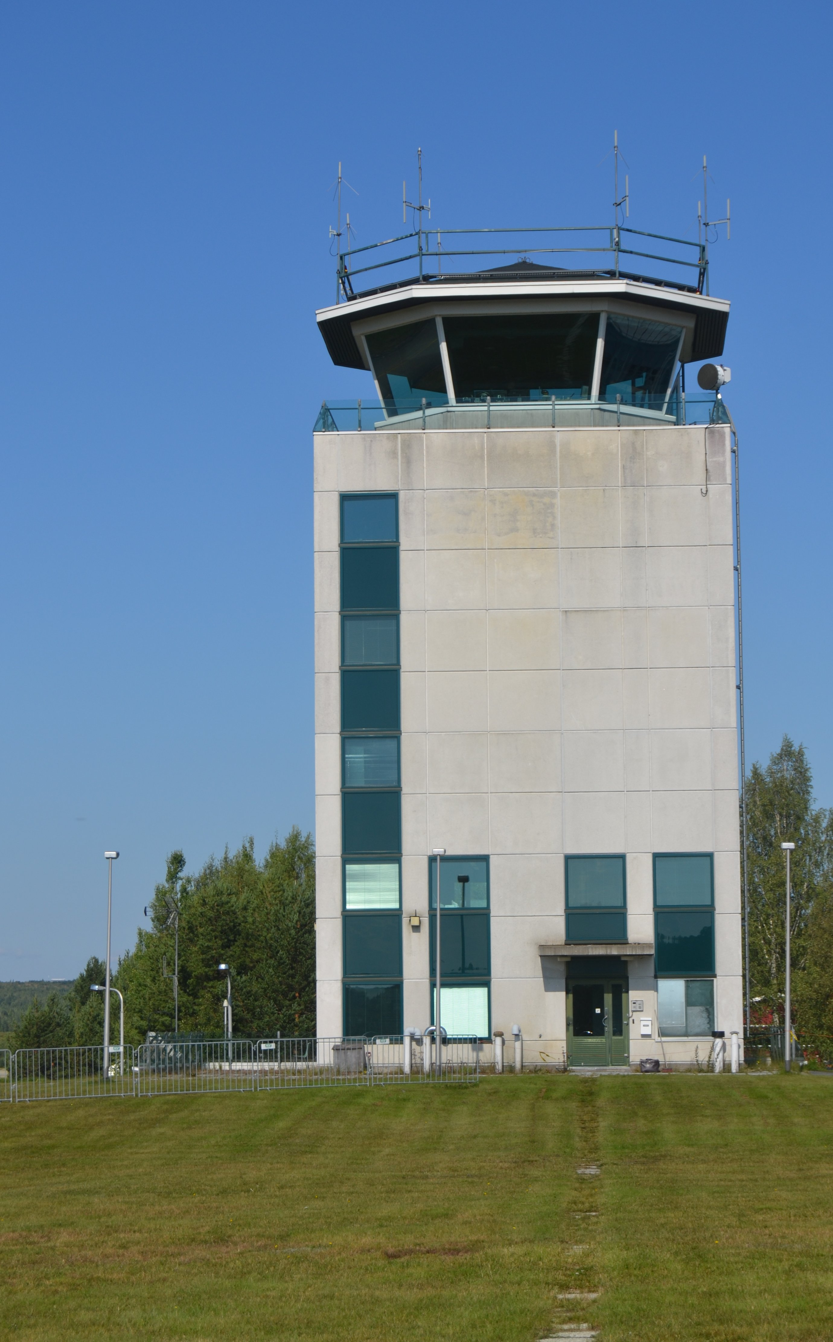 Air traffic control tower at Jyväskylä Airport, Finland